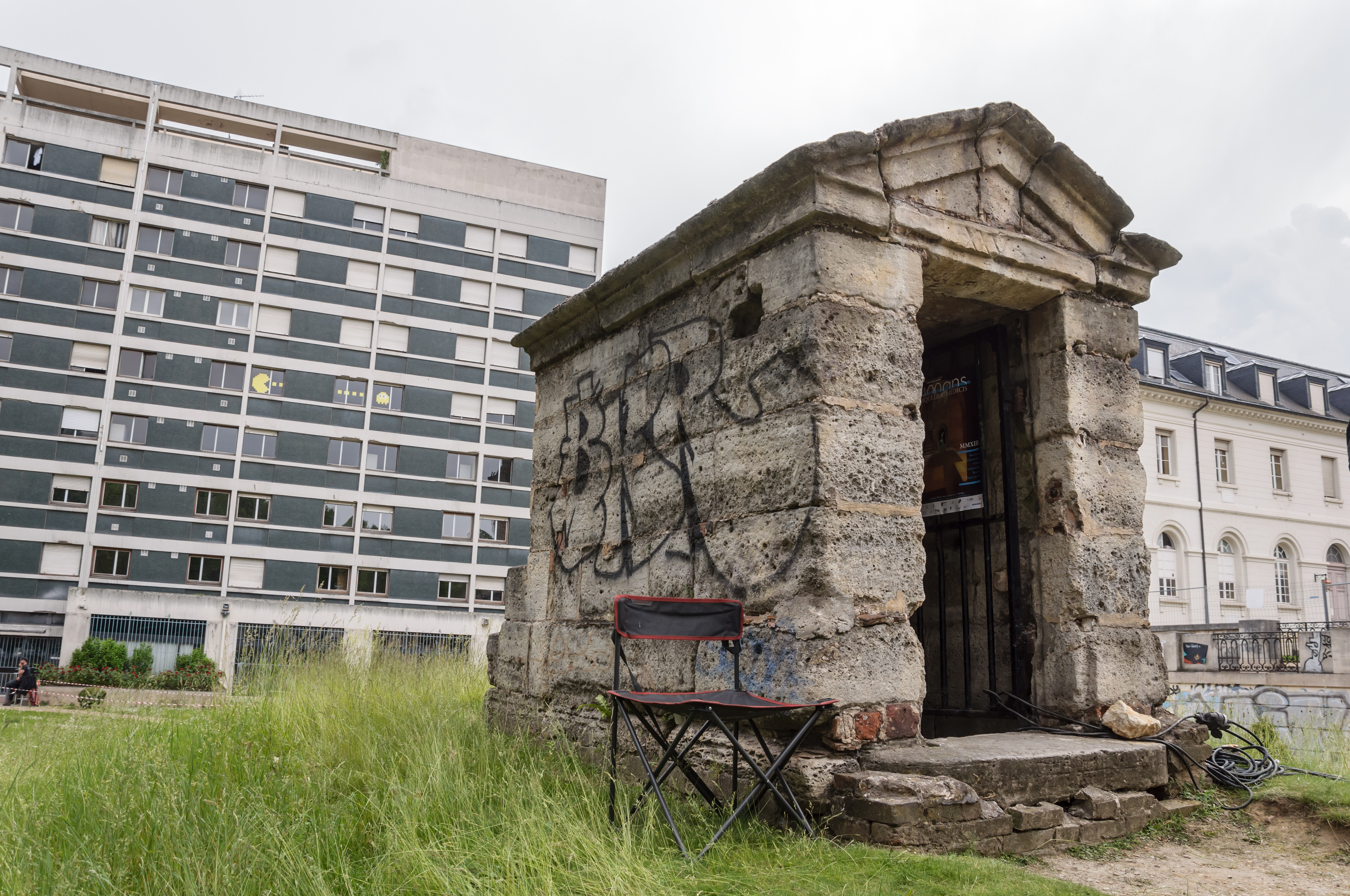 The former regard n. 25, so called “regard de Saux” of the Medici aqueduct, in the Hôpital La Rochefoucauld, Paris 14th arrondissement, France. .